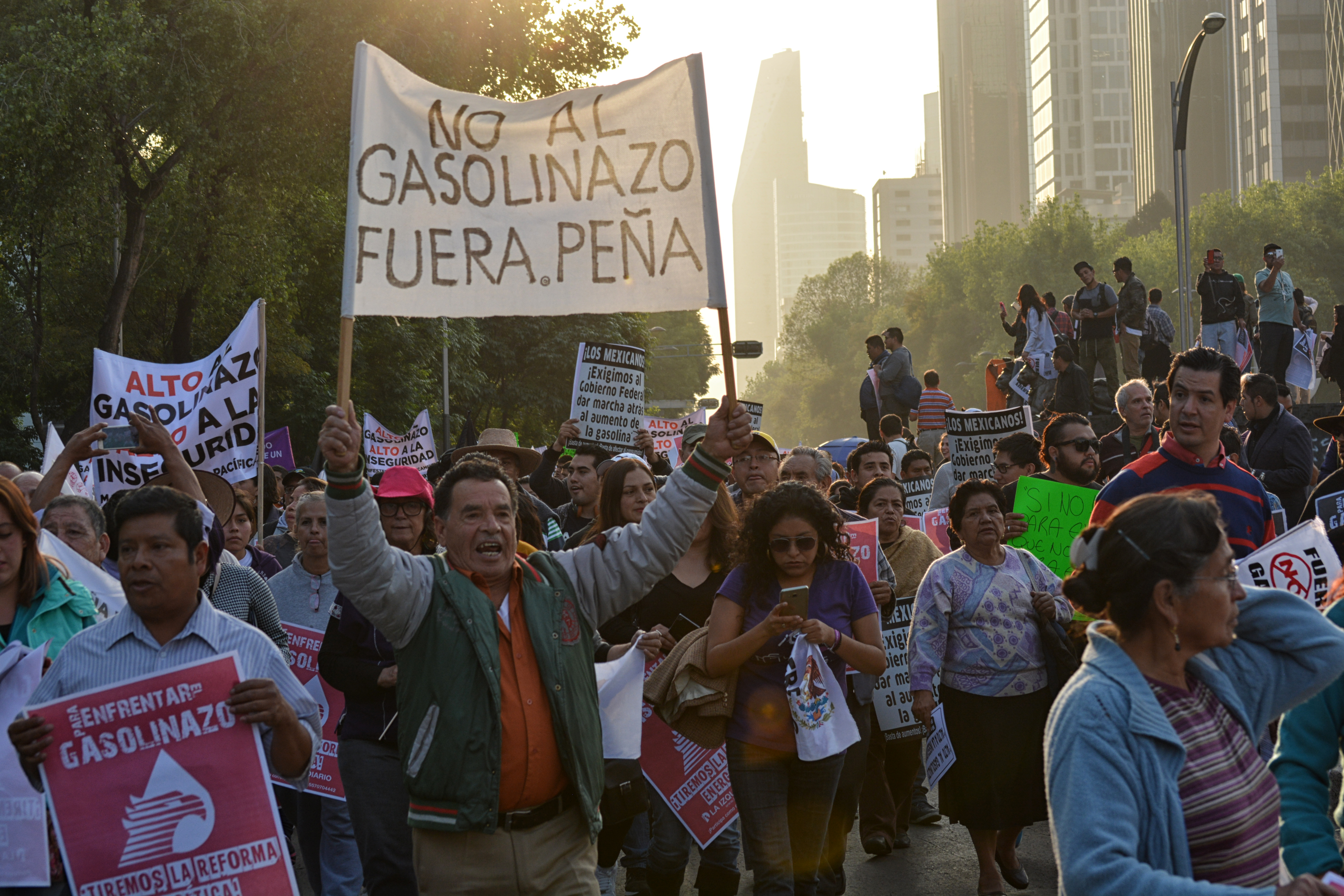 Protest against the 'gasolinazo,' rise of fuel prices in Mexico City. People demanding resignation of the president Enrique Peña Nieto.